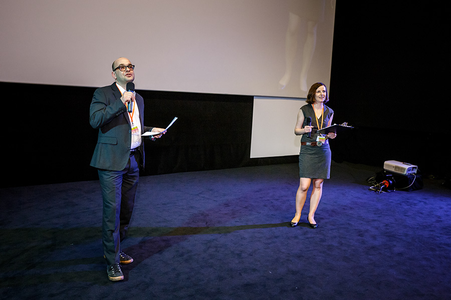 Jarosław Lipszyc i Magdalena Biernat on CopyCamp 2014 in Warsaw (Nova Praha cinema, room A)